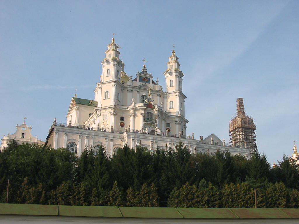 Pochayiv monastery, Ternopil oblast, western Ukraine